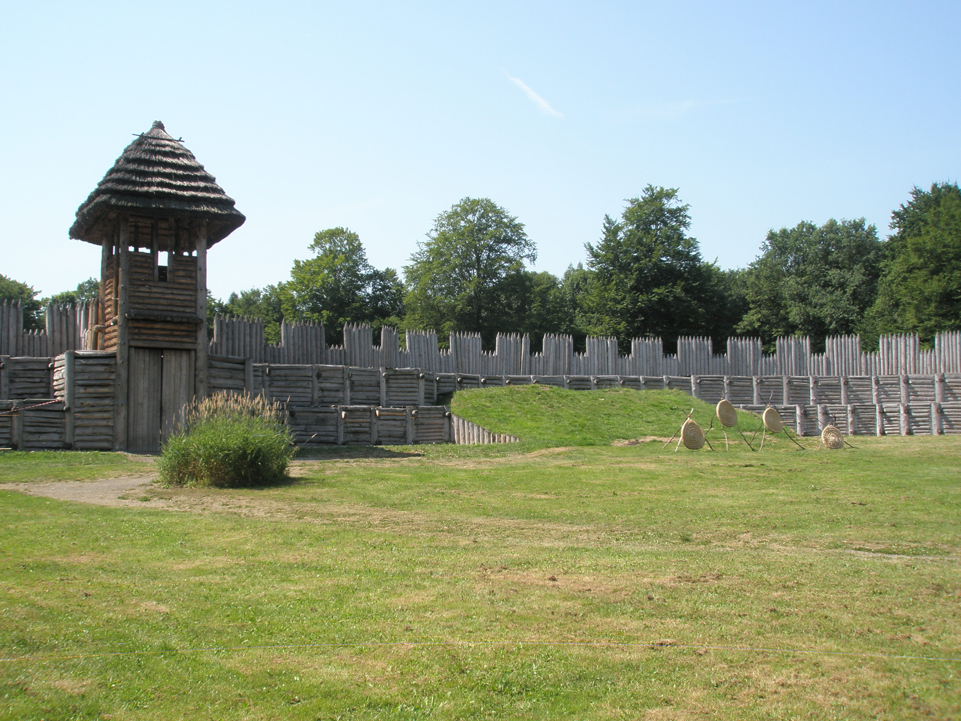 Archaeological Park in Chotěbuz-Podobora (Czech Republic). Acropolis.